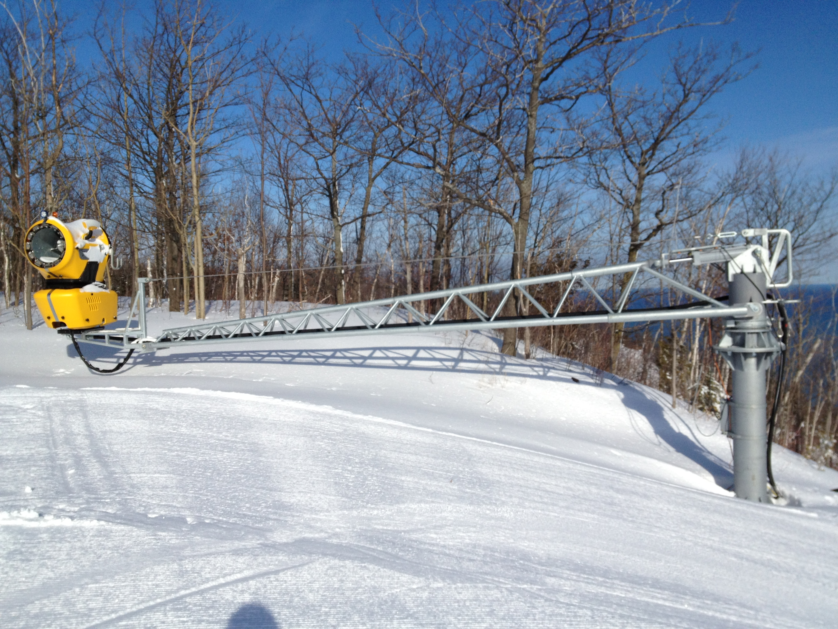 A moveable snow making machine in Collingwood, Canada.